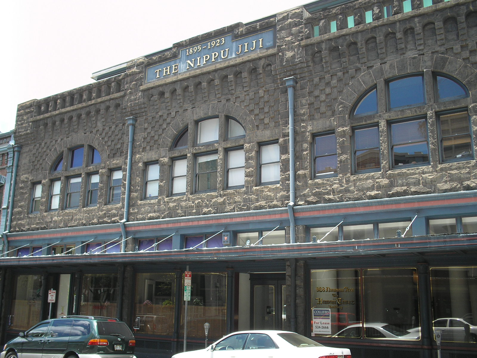 Nippu Jiji Building (also known as Irwin Block), 928 Nuuanu Avenue, Honolulu, Hawaii; built for William G. Irwin in 1897 by architects C.B. Ripley & C.W. Dickey; purchased in 1923 by Japanese-language newspaper Nippu Jiji (founded in 1895 as The Yamato).